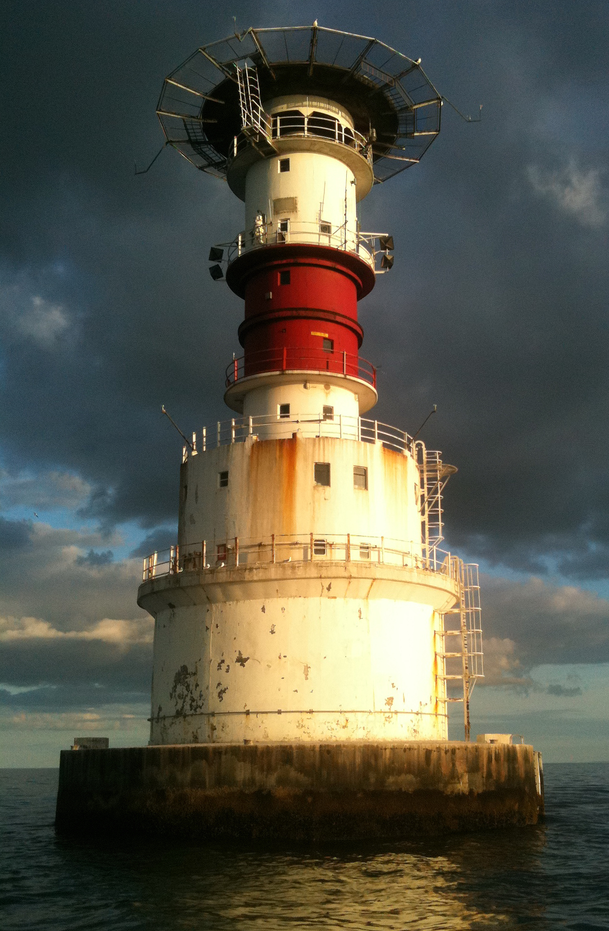 The Kish lighthouse in Dublin Bay...only had an old iPhone 3 on me that evening but the light was great!